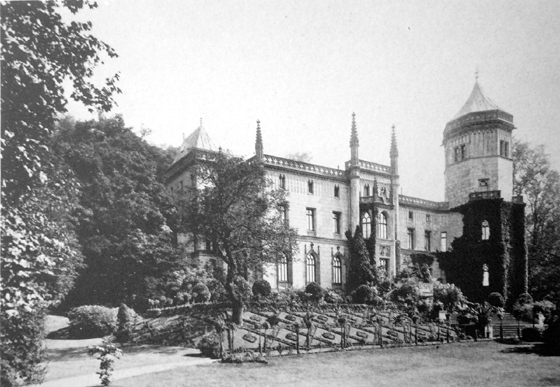 Donners Park, Altona-Hamburg.